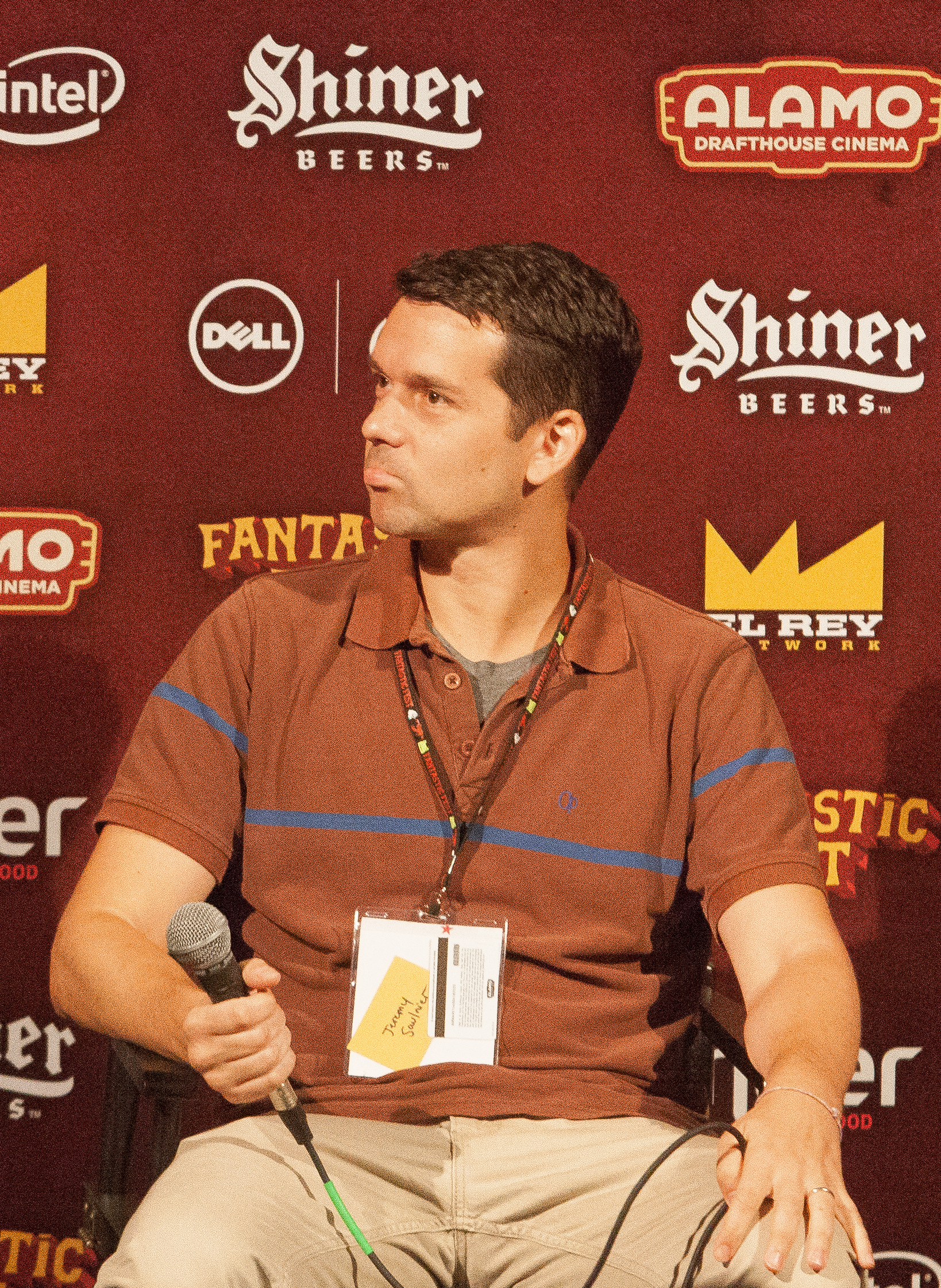 Jeremy Saulnier (/soʊˈnjeɪ/; born 1977[1]) is an American film director, cinematographer and screenwriter.